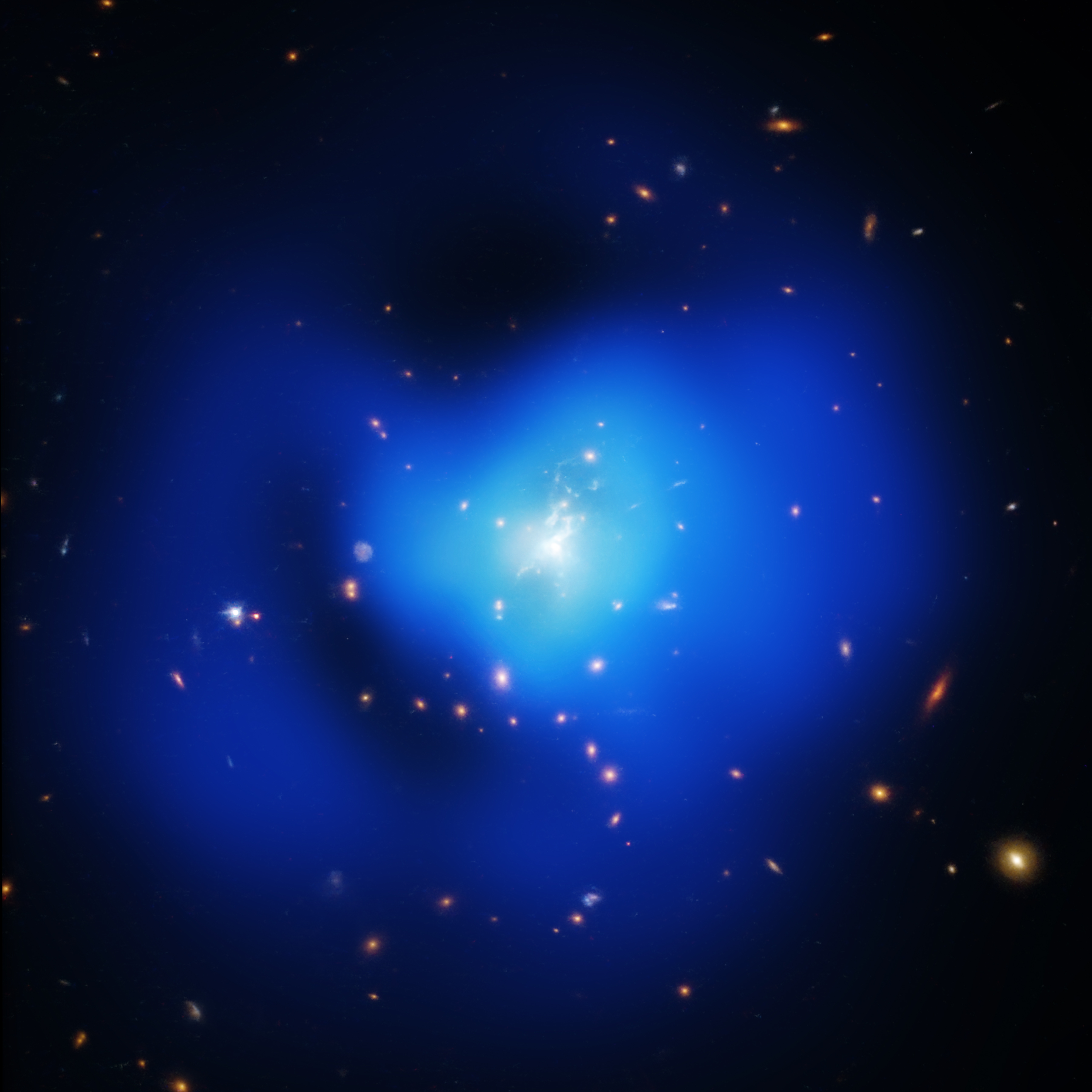 New observations of the galaxy cluster SPT-CLJ2344-4243 at X-ray, ultraviolet, and optical wavelengths are helping astronomers better understand this extraordinary system. Chandra data (blue) reveal large cavities in the X-rays, which have been combined in this composite image with optical data from Hubble (red, green, and blue). Astronomers think these X-ray cavities were carved out of the surrounding gas by powerful jets of high-energy particles emanating from near a supermassive black hole in the central galaxy of the cluster. Massive filaments of gas and dust, which extend for 160,000 to 330,000 lights years, surround the X-ray cavities.